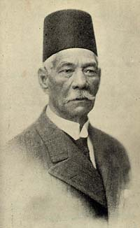 Photograph of Saad Zaghloul (1859–1927), former Prime Minister of Egypt. This is one of the most famous photographic portraits of Zaghloul. It was published at least as early as the mid-1920s since it was printed in Zaki Fahmi's book Safwat al-'Asr (1926). It appears in page 132 in the 1995 re-edition of the book. The caption below the photograph identifies its author as Hanselman (تصوير هنزلمان).